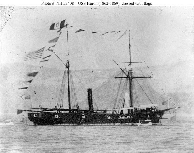 USS Huron (1862-1869) Dressed with flags, with the Italian flag at her main peak, probably during her post-Civil War service.